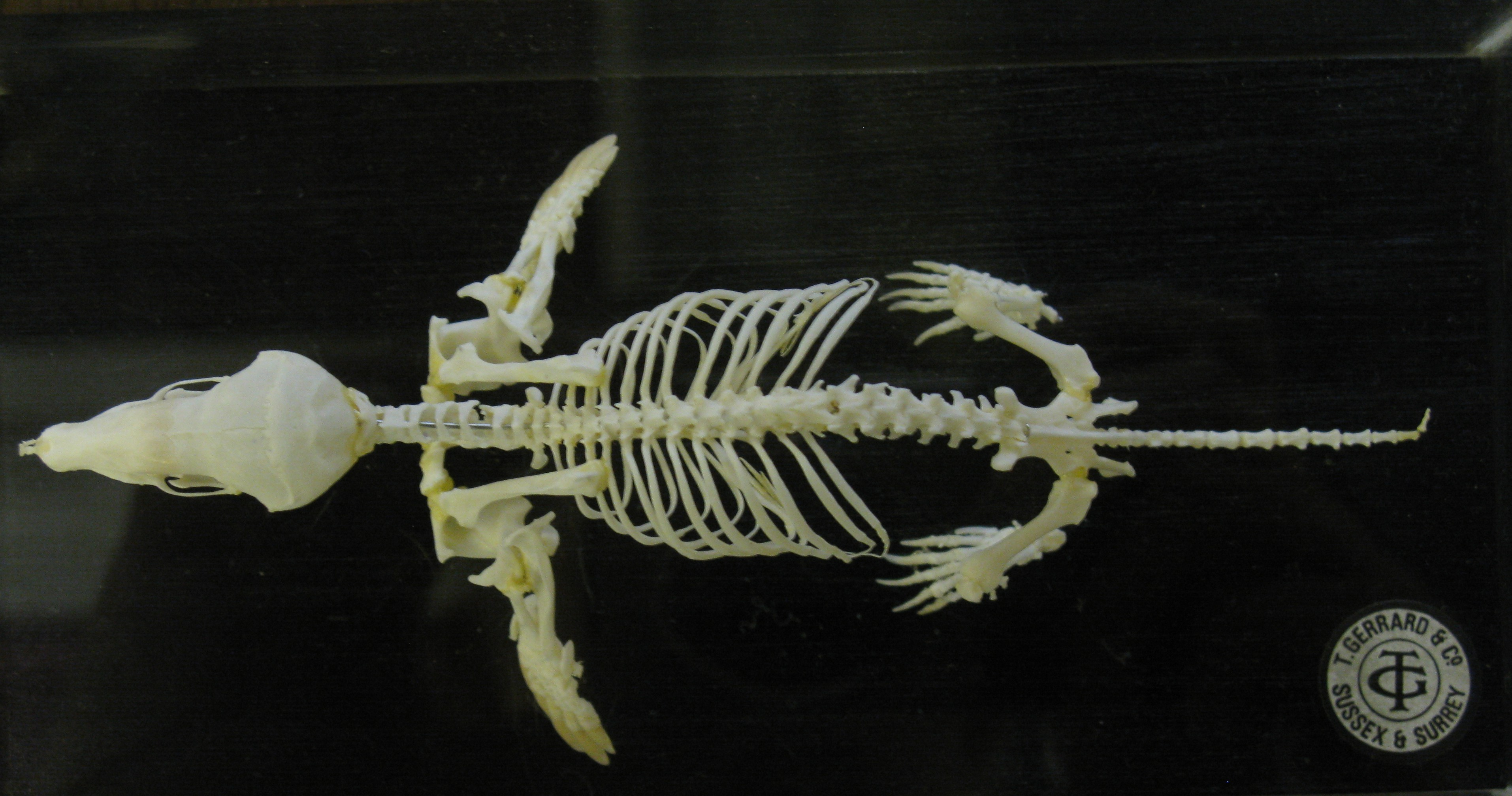 This is a mounted skeleton on the Common Mole, Talpa europaea. I think it looks remarkably like an swimming animal such as a seal, dolphin, or icthyosaur. Perhaps tunneling through the soft earth in not very different from swimming though liquid water? This photo was taken as part of Britain Loves Wikipedia in February 2010 by John Faithfull.